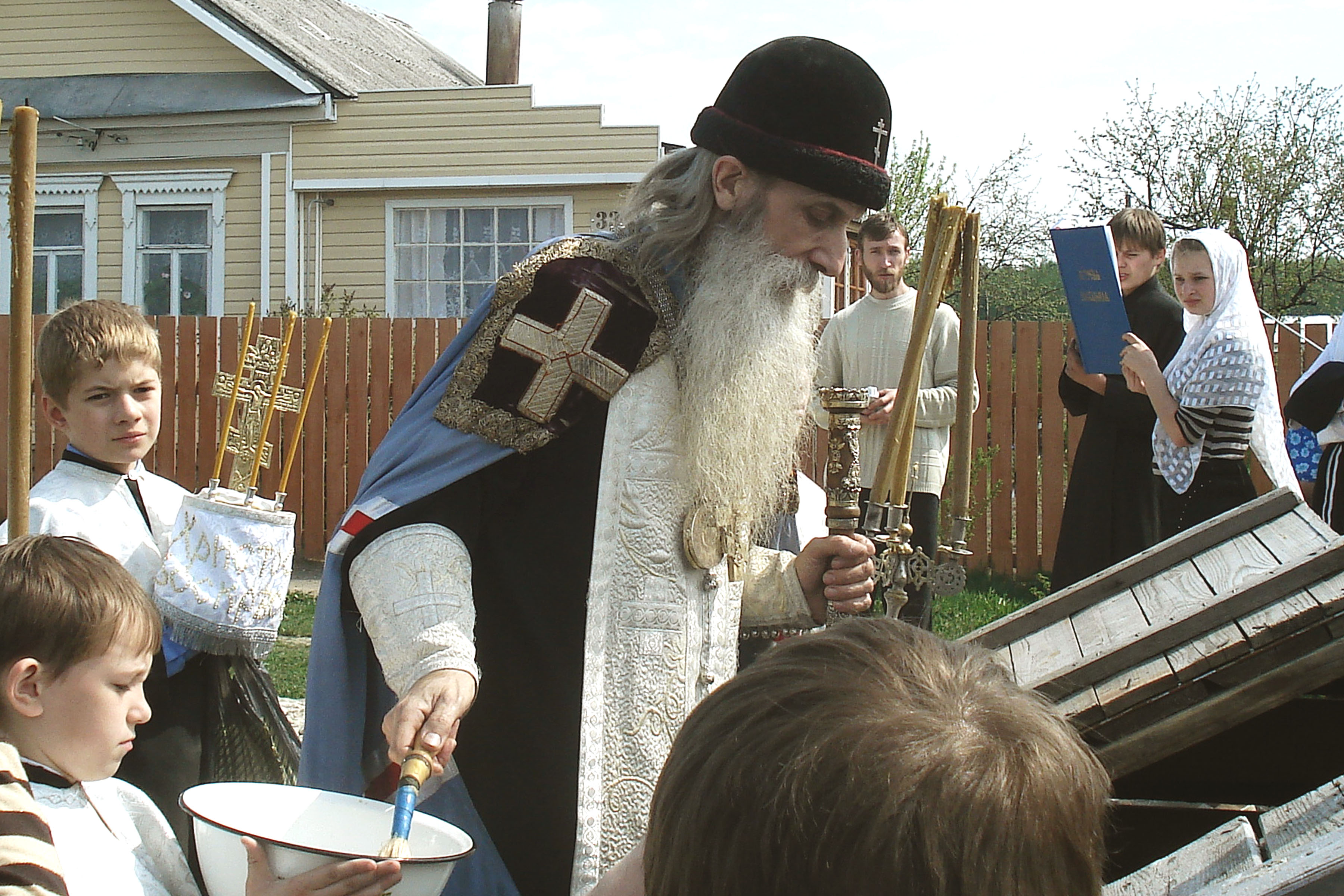 Metropolitan Korniliy, the head of Russian Orthodox Old-Rite Church consecrations a well during Bright Week (Easter Week). Yelizarovo, Orekhovo-Zuyevsky District, Moscow Oblast. The young altar server behind the bishop is holding the Paschal candlestick